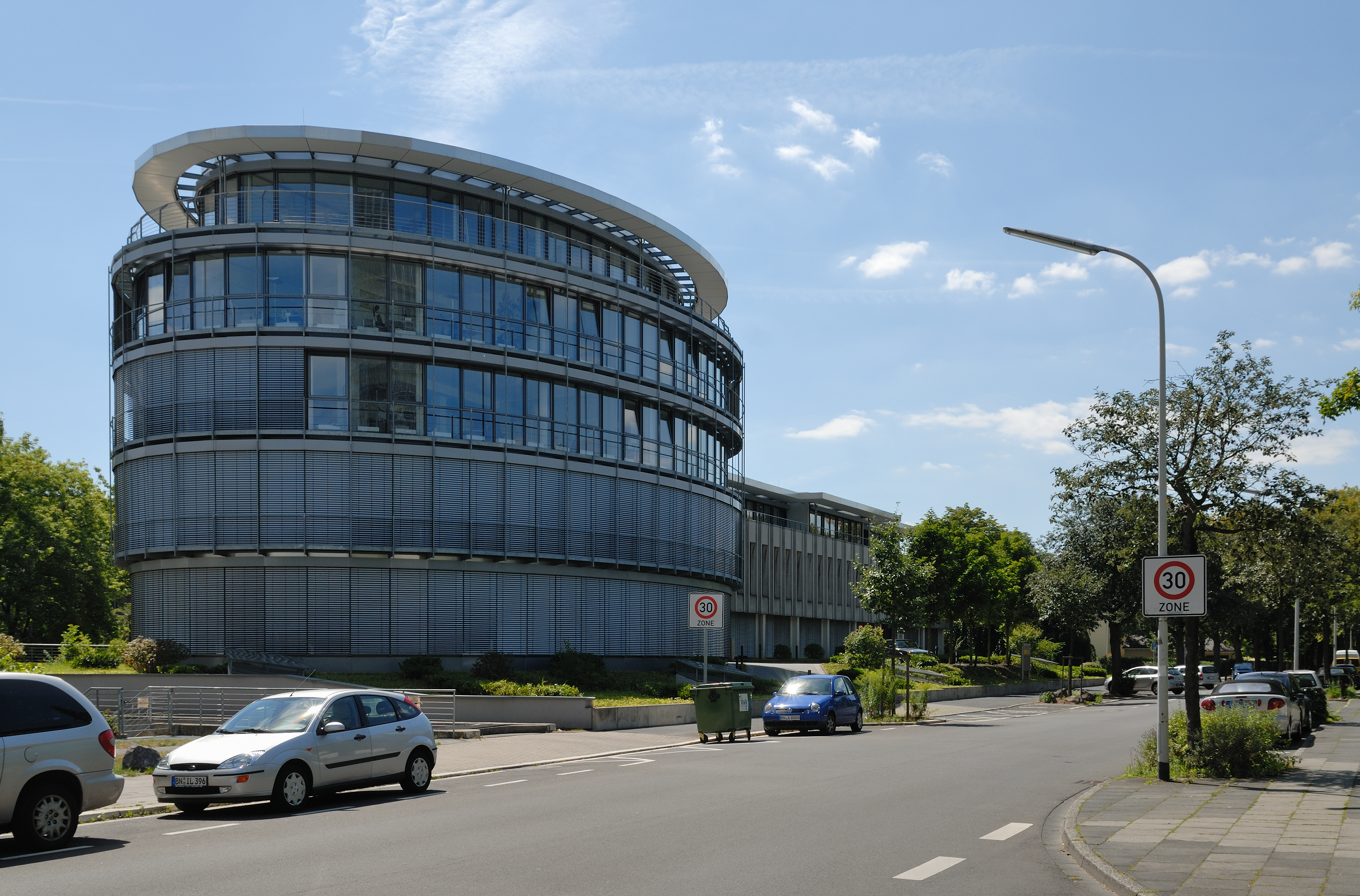 infas Institute for Applied Social Sciences, Bonn, Germany.